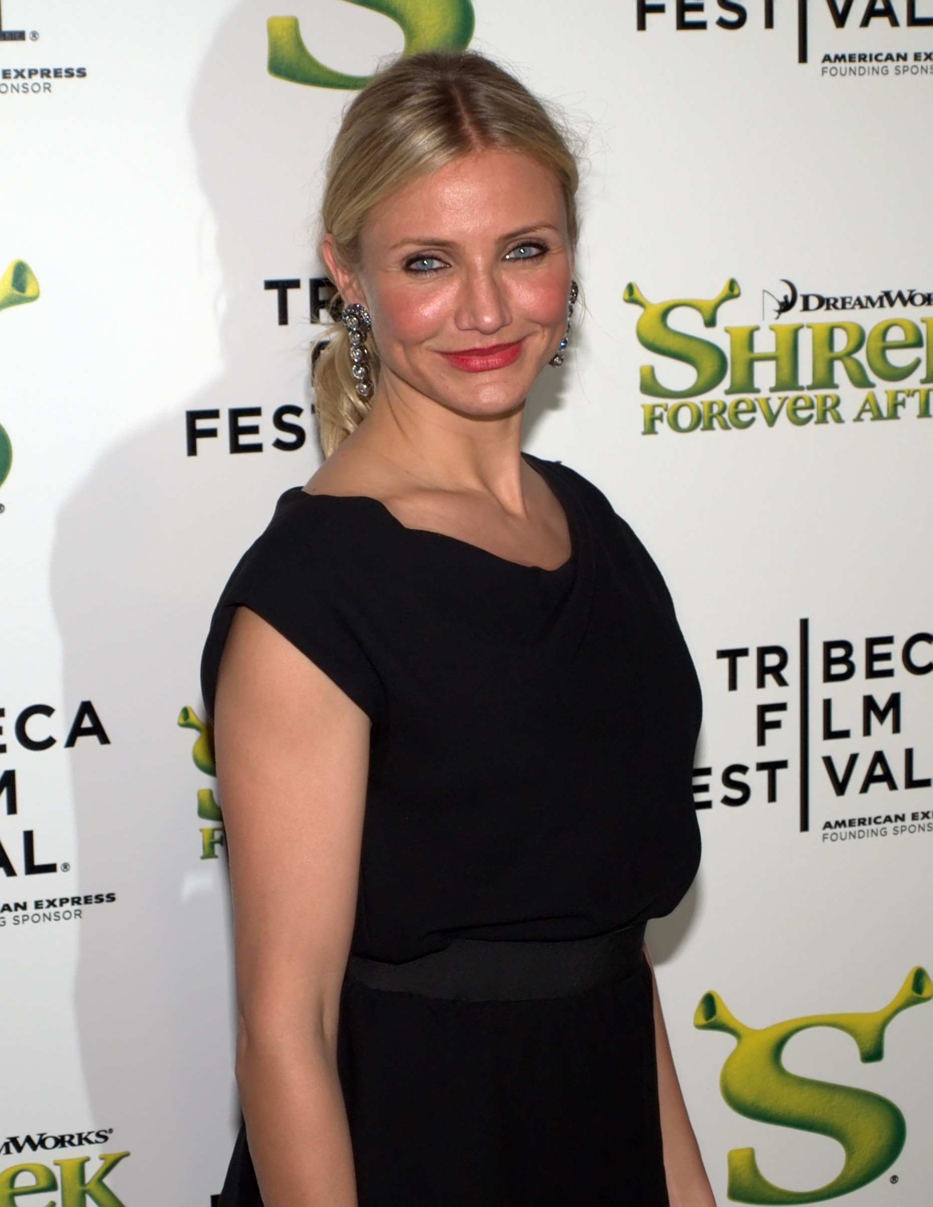 Cameron Diaz at Tribeca Film Festival 2010.